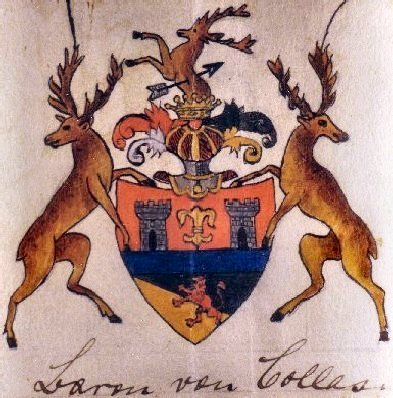 Coat of arms of the german family „von Collas“